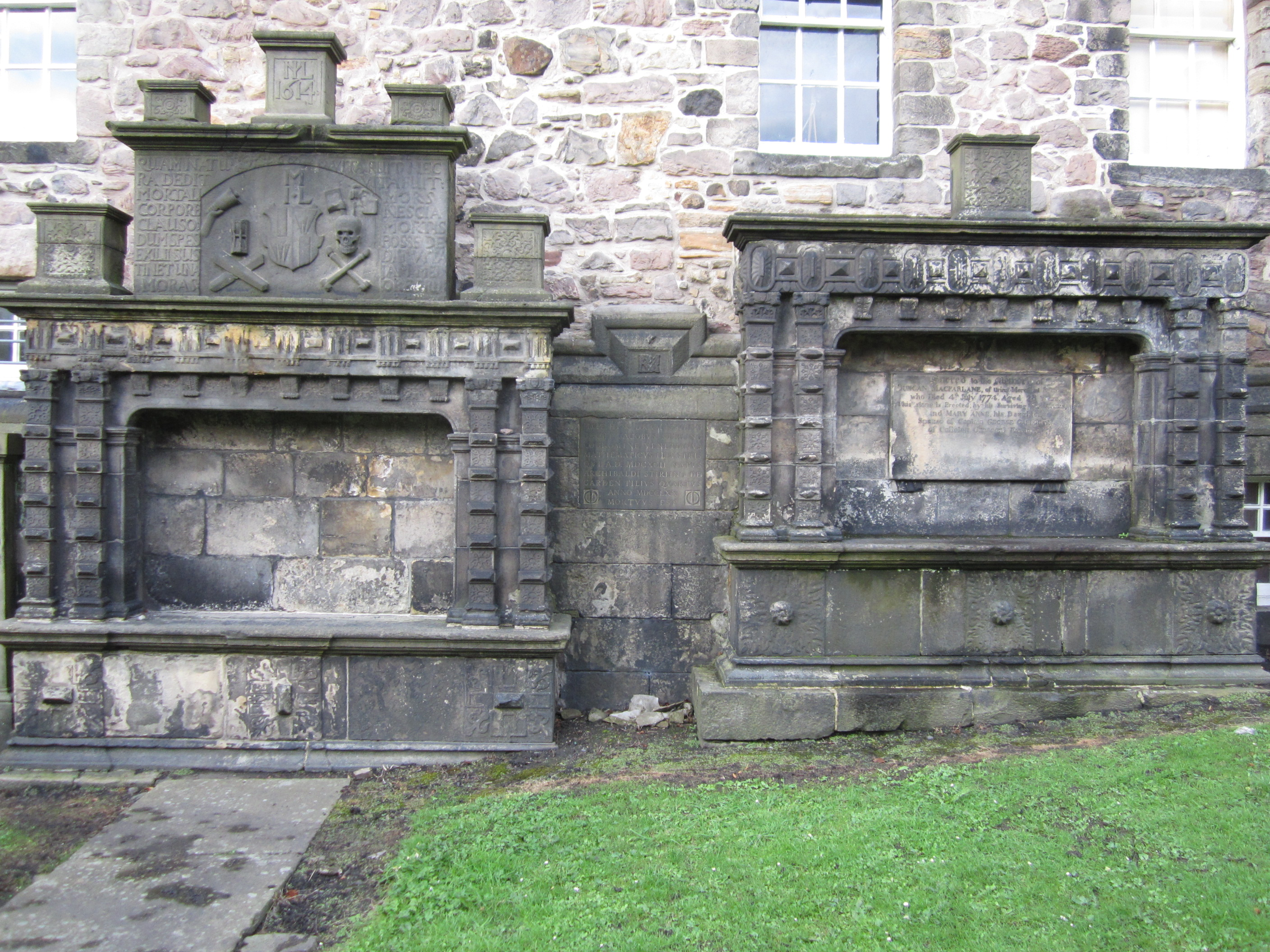 This is the general view showing the position of James Stirling's grave in Greyfriars Kirkyard in Edinburgh, on the wall towards Candlemaker row, not far from the entrance on the right.